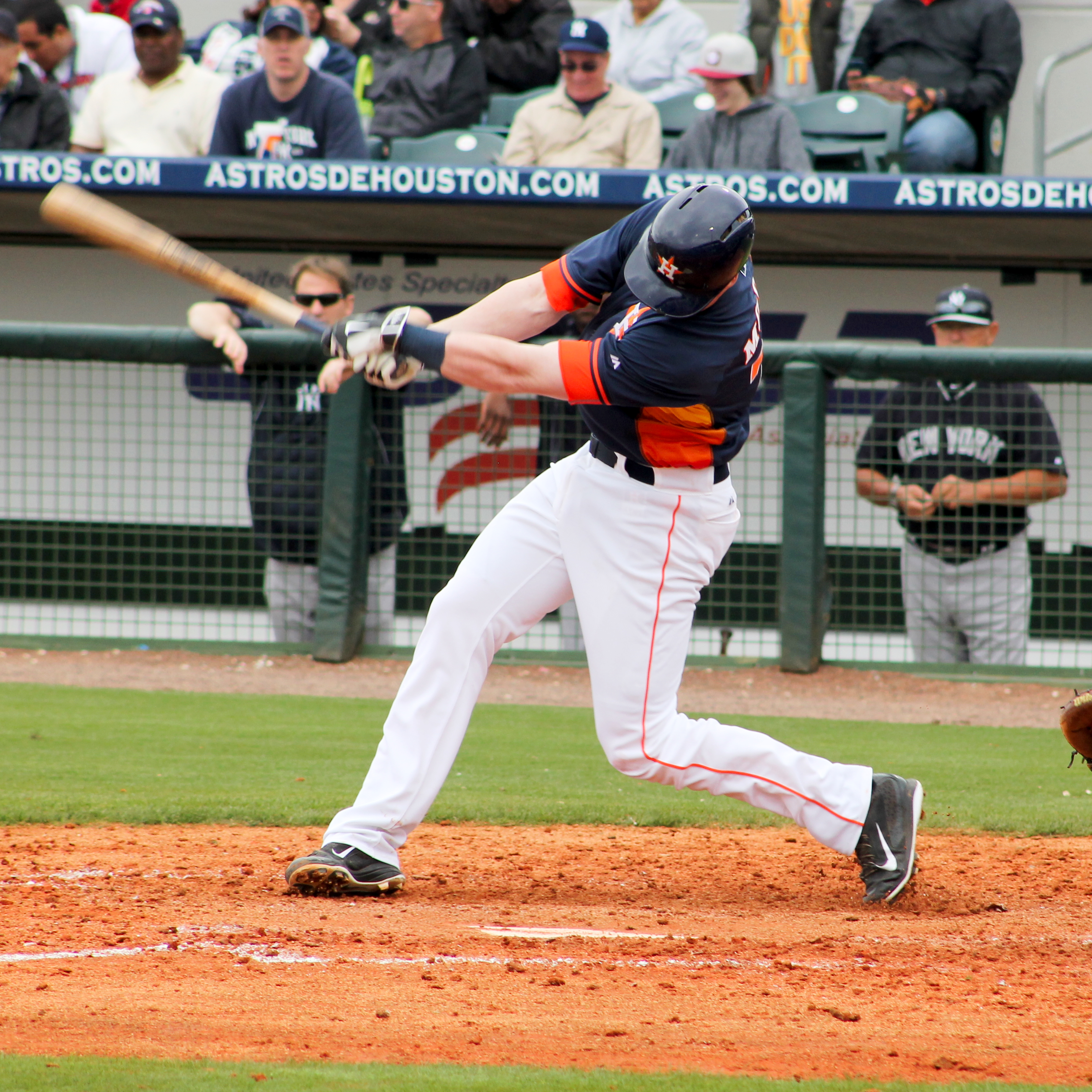 Professional baseball player Colin Moran swings at a pitch during spring training in 2015.